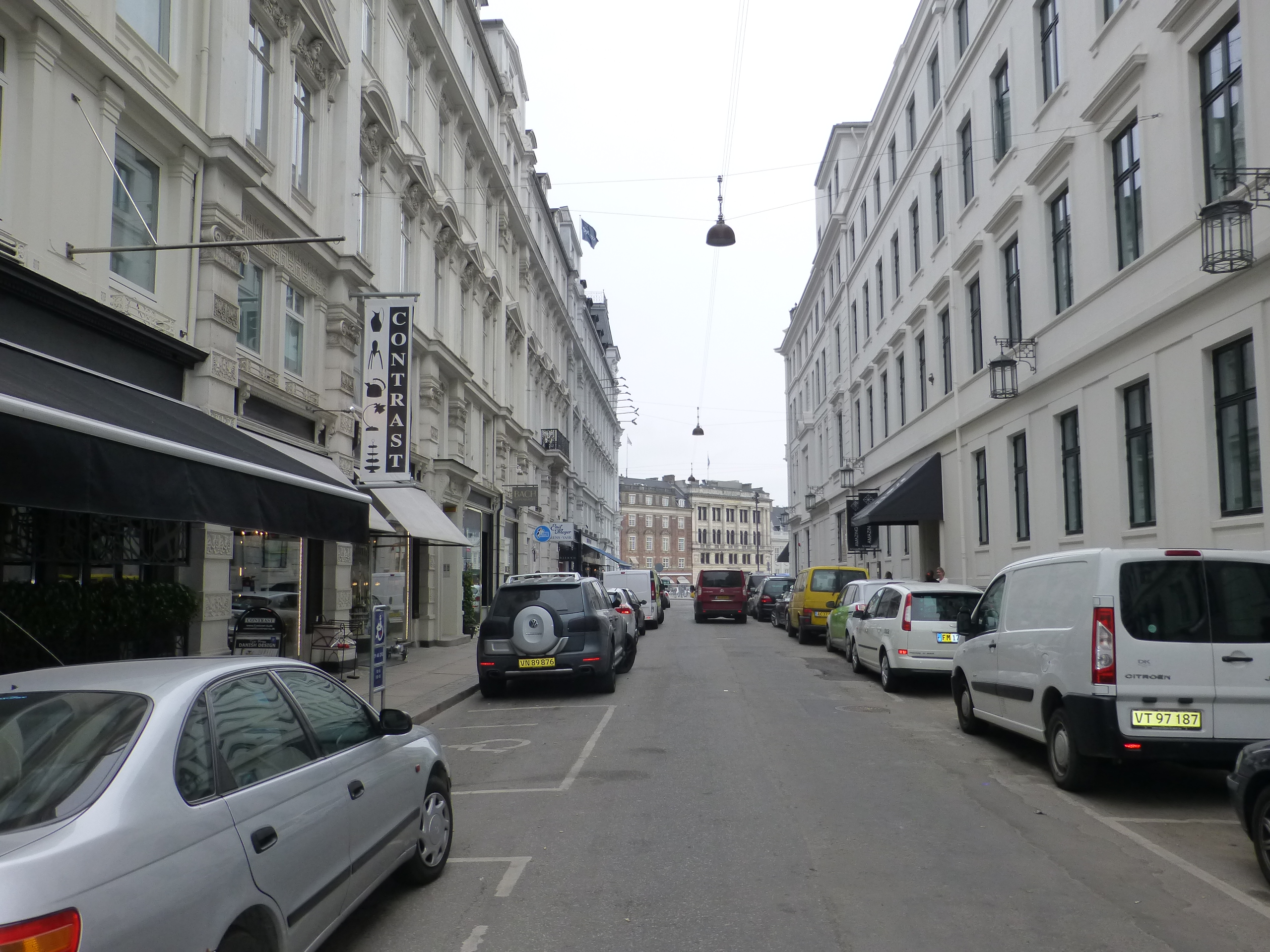 The street Hovedvagtsgade in Indre By in Copenhagen.